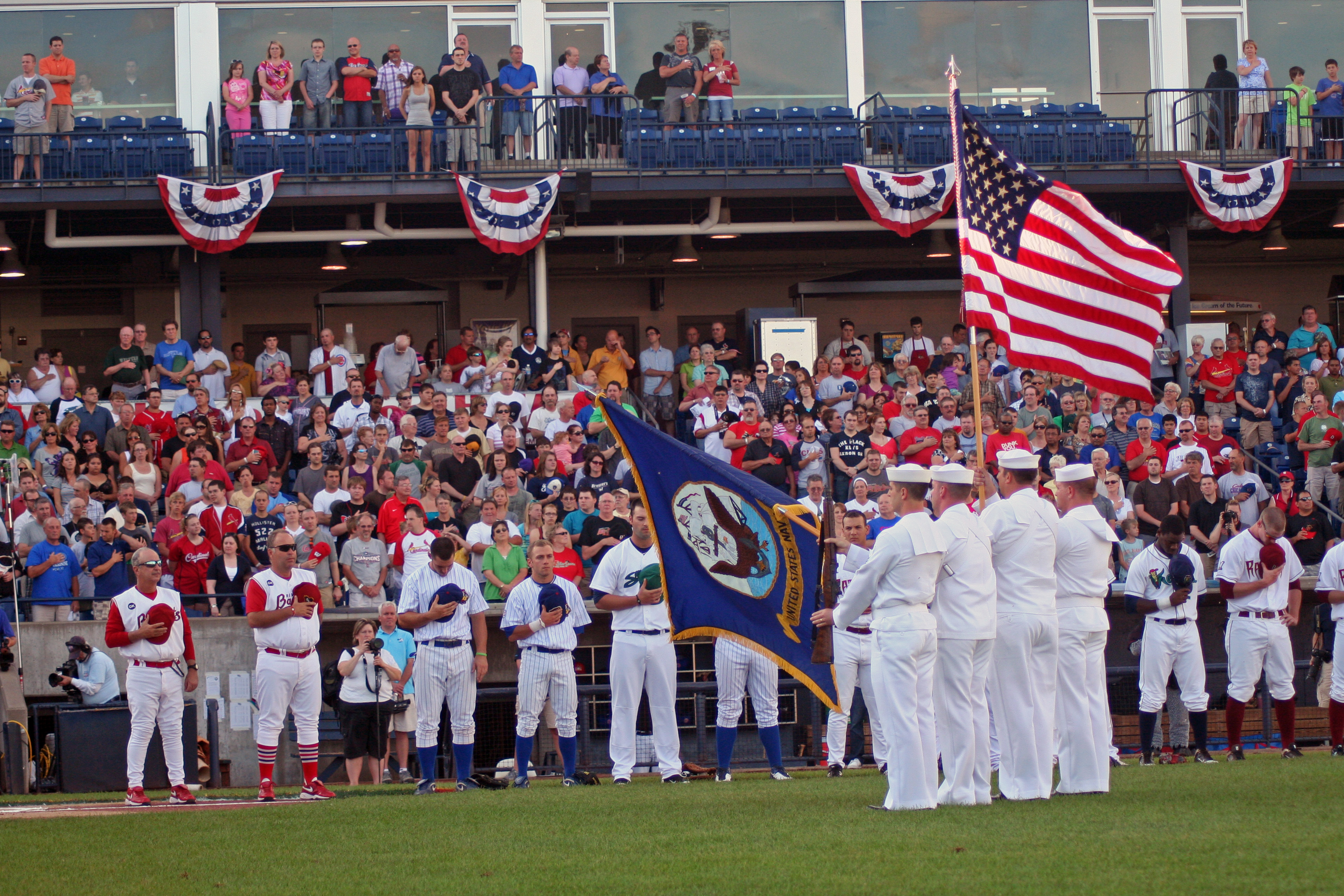 DAVENPORT, Iowa (June 21, 2011) A color guard assigned to Navy Operational Support Center (NOSC) Rock Island, Ill., parades the colors during opening ceremonies at the 2011 Midwest League All-Star Game at Modern Woodmen Park during Quad Cities Navy Week 2011, one of 21 Navy Weeks being held this year across the country. Navy Weeks are designed to showcase the investment Americans have made in their Navy as a Global Force for Good and increase awareness in cities that do not have a significant Navy presence. (U.S. Navy photo by Chief Mass Communication Specialist Steve Johnson/Released)